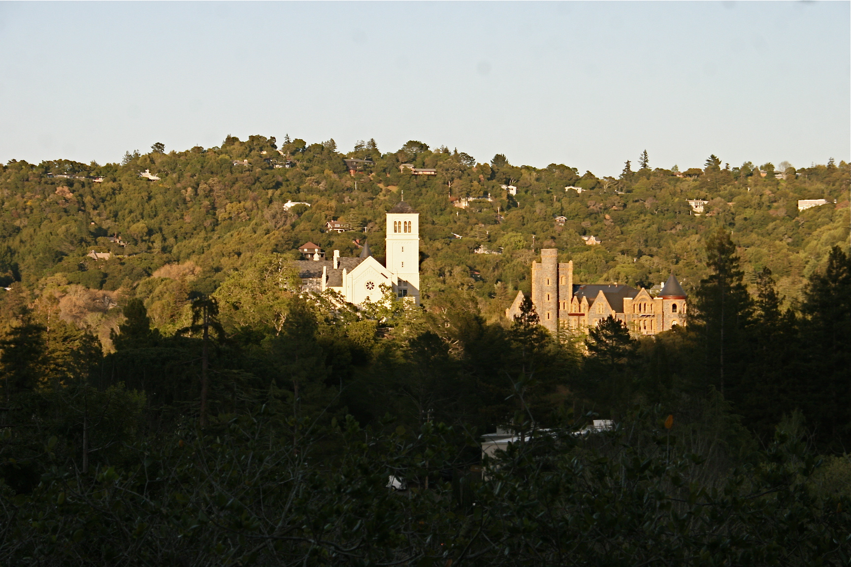 San Anselmo, California